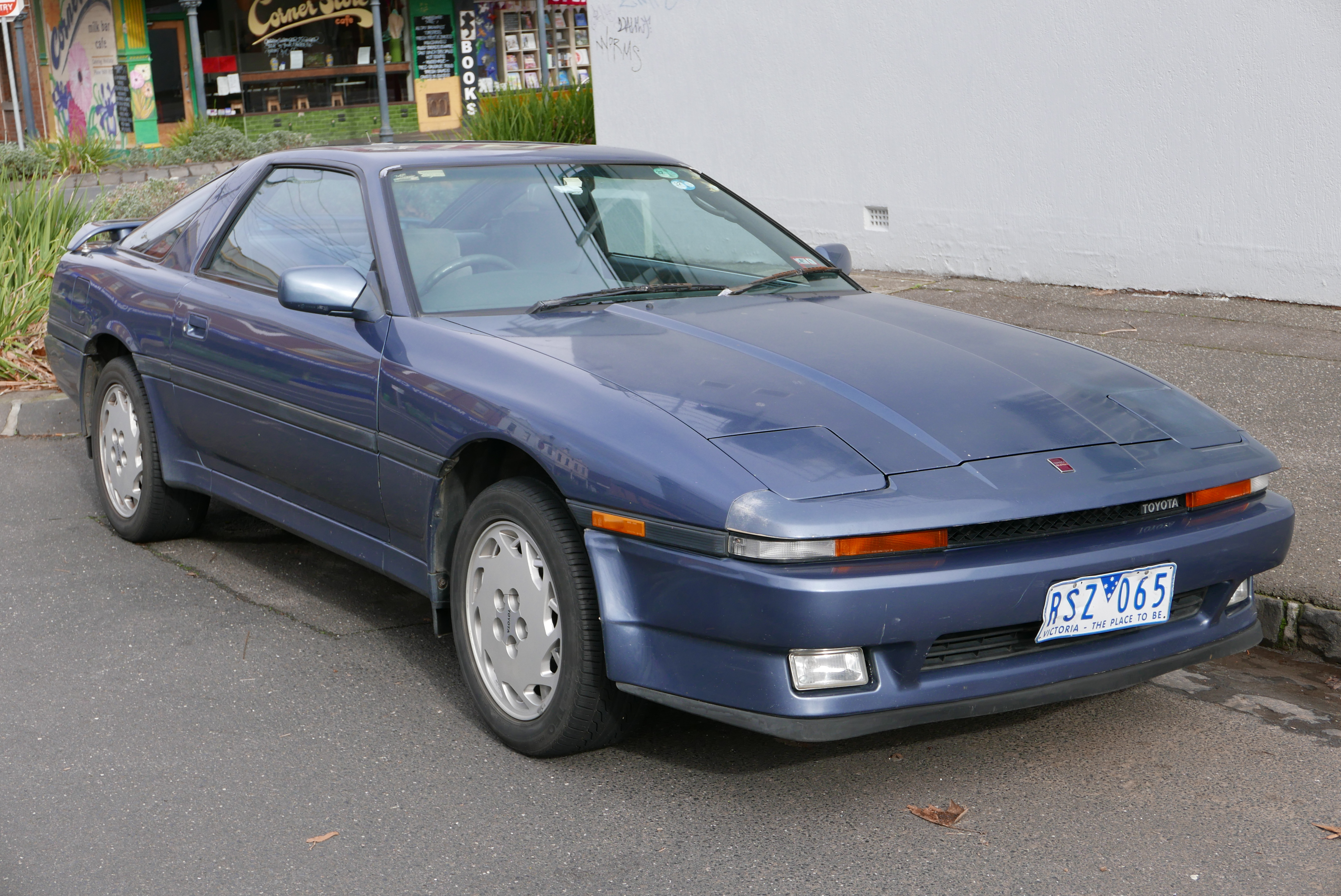 1986 Toyota Supra (MA70) liftback. Photographed in Fitzroy North, Victoria, Australia. Vehicle registration enquiry results Jurisdiction Victoria Registration RSZ065 Chassis code Not available Engine code 7M409055 Compliance date Not available Year of manufacture 1986